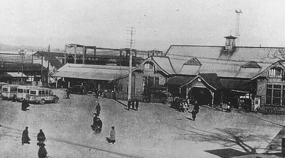 Fukushima Koriyama Station in 1935